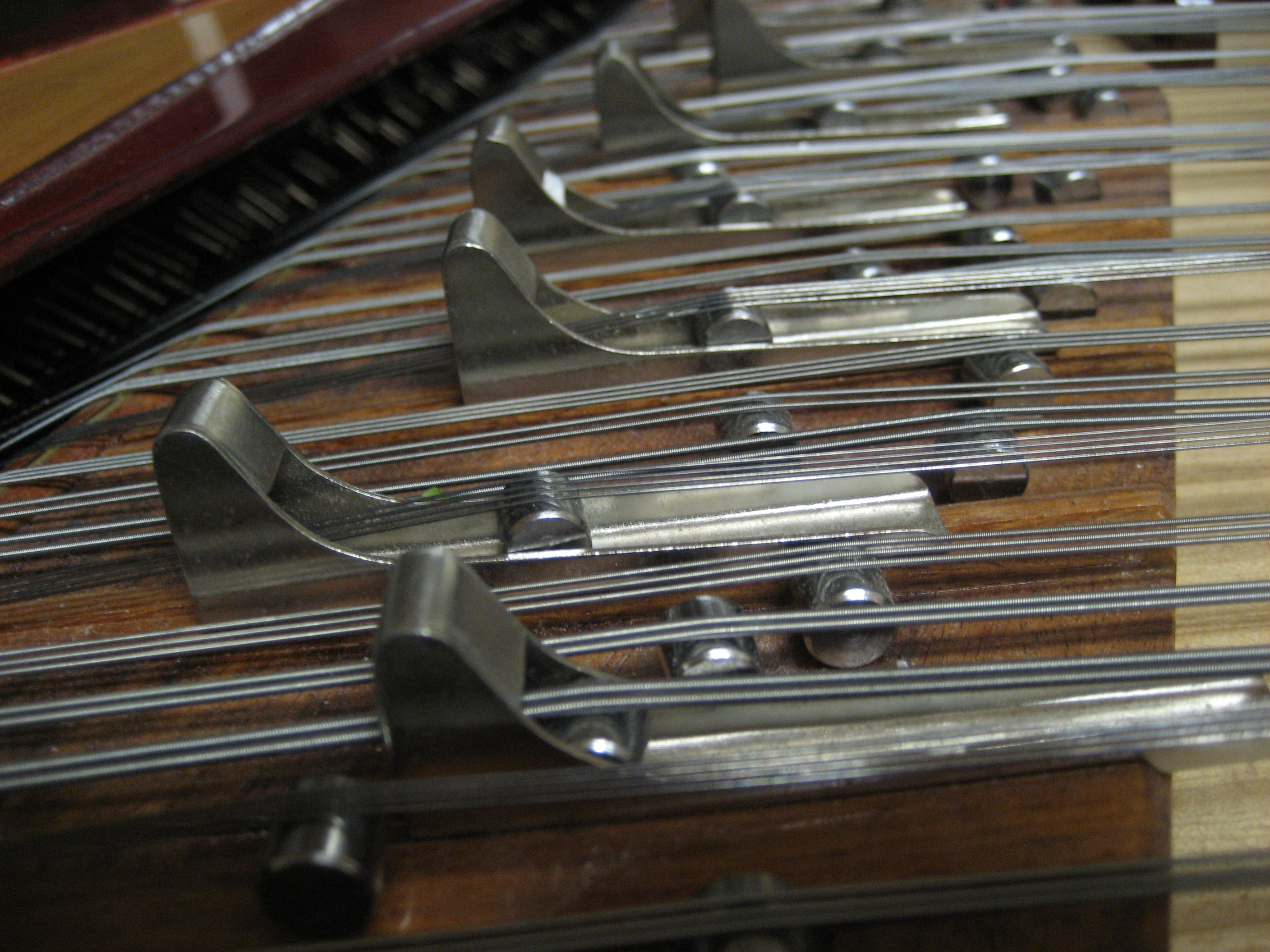 Side view of Yangqin strings and tuners.